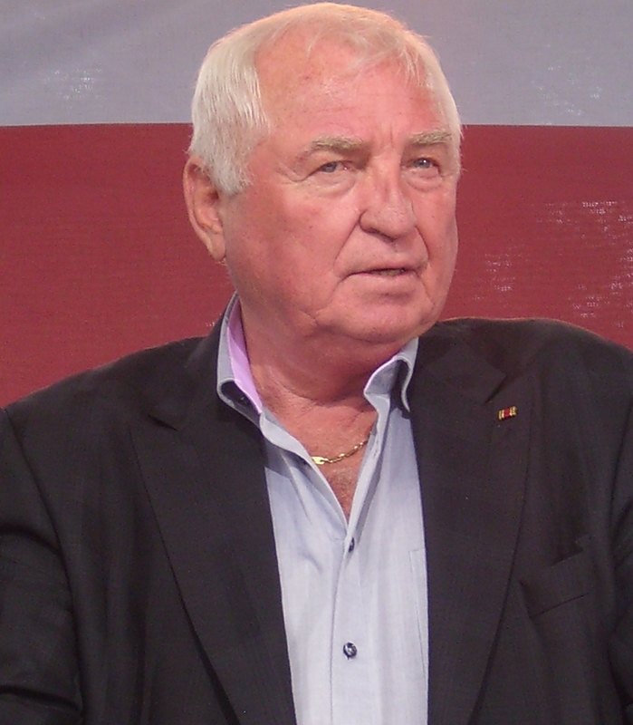 Ulli Wegner at RBB Festival 2013 (10 years RBB)